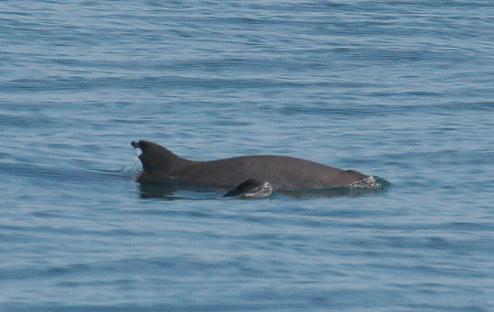 A vaquita. The vaquita (Phocoena sinus) is a critically endangered porpoise species endemic to the northern part of the Gulf of California. It is considered the smallest and most endangered cetacean in the world. Vaquita photo taken under permit (Oficio No. DR/488/08) from the Secretaria de Medio Ambiente y Recursos Naturales (SEMARNAT), within a natural protected area subject to special management and decreed as such by the Mexican Government. The original NOAA image has been modified by removal of a watermark.